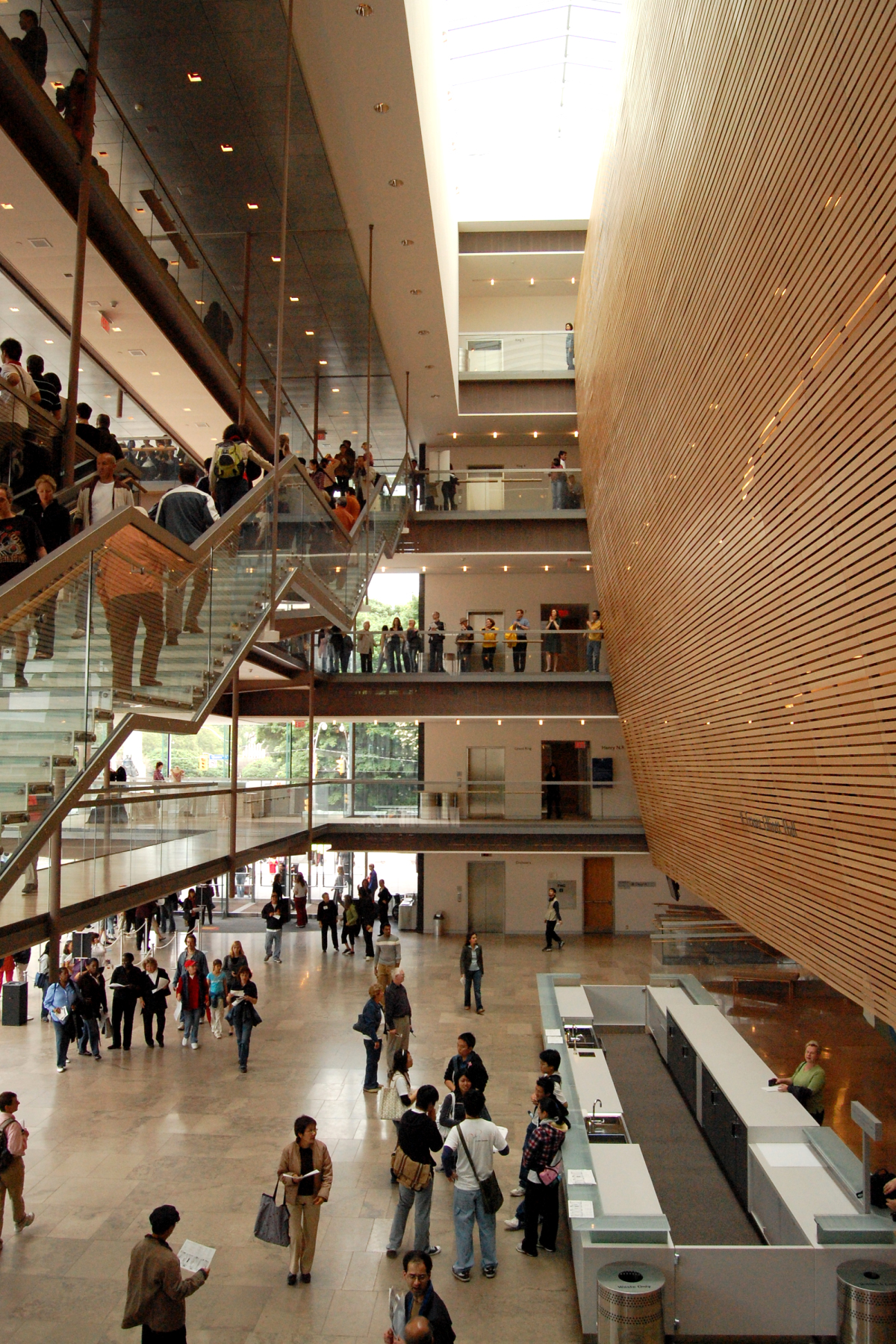 The main hall of the Four Seasons Centre, with the glass staircase to the left. Shot during Doors Open Toronto.